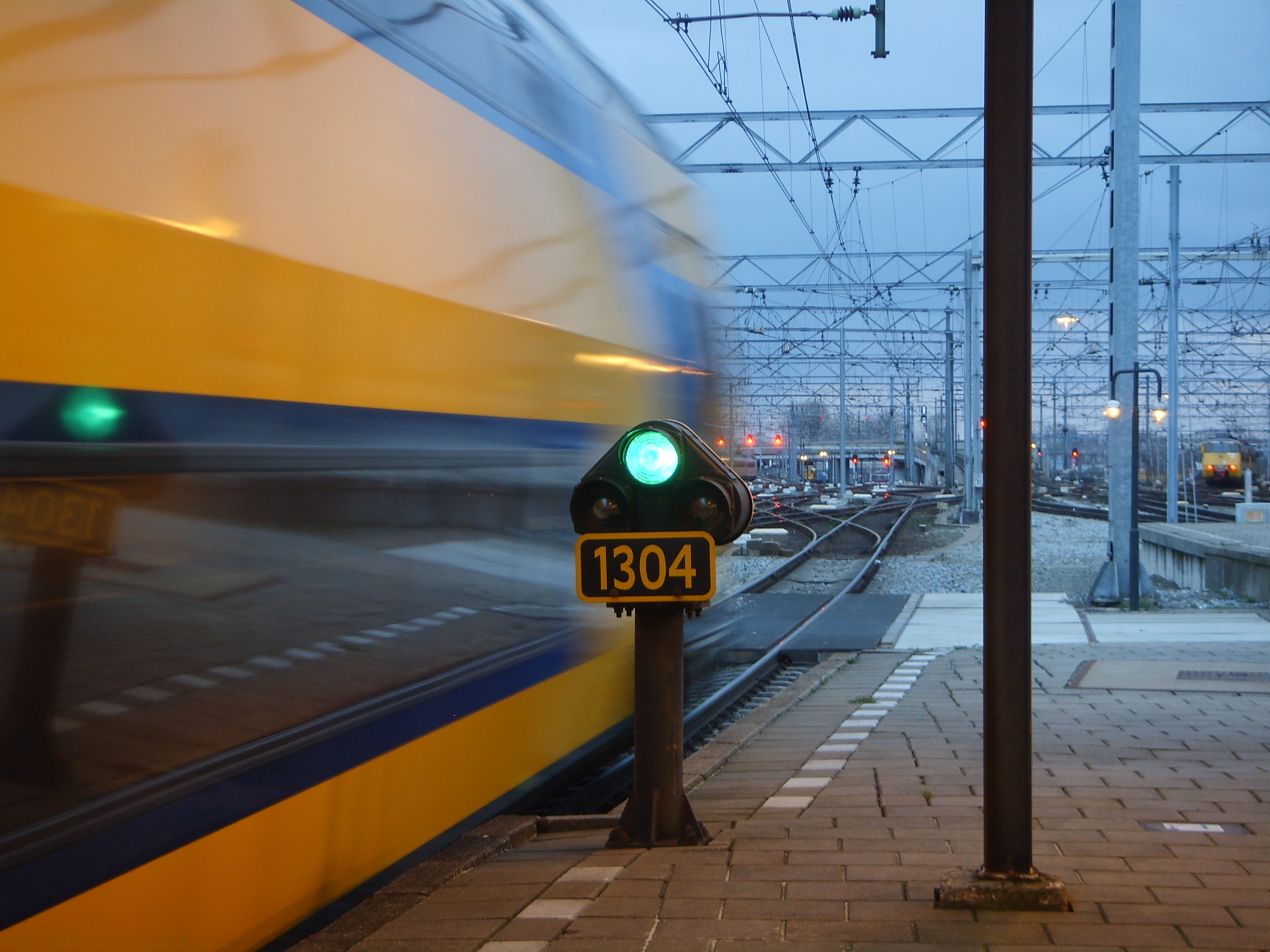 Small exit railway signal at Utrecht Central railway station (Netherlands).